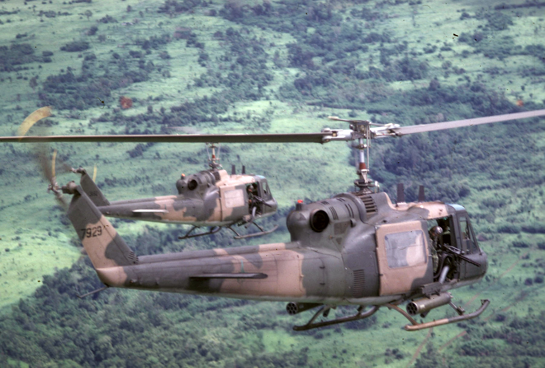 Two U.S. Air Force Bell UH-1P helicopters from the 20th Special Operations Squadron into Cambodia, circa 1970. Communist supplies moved from the port of Kompong Som, through Cambodia, to South Vietnam along the Sihanouk Trail. Until 1969, this artery, named after Cambodian leader Prince Sihanouk, was left largely untouched.